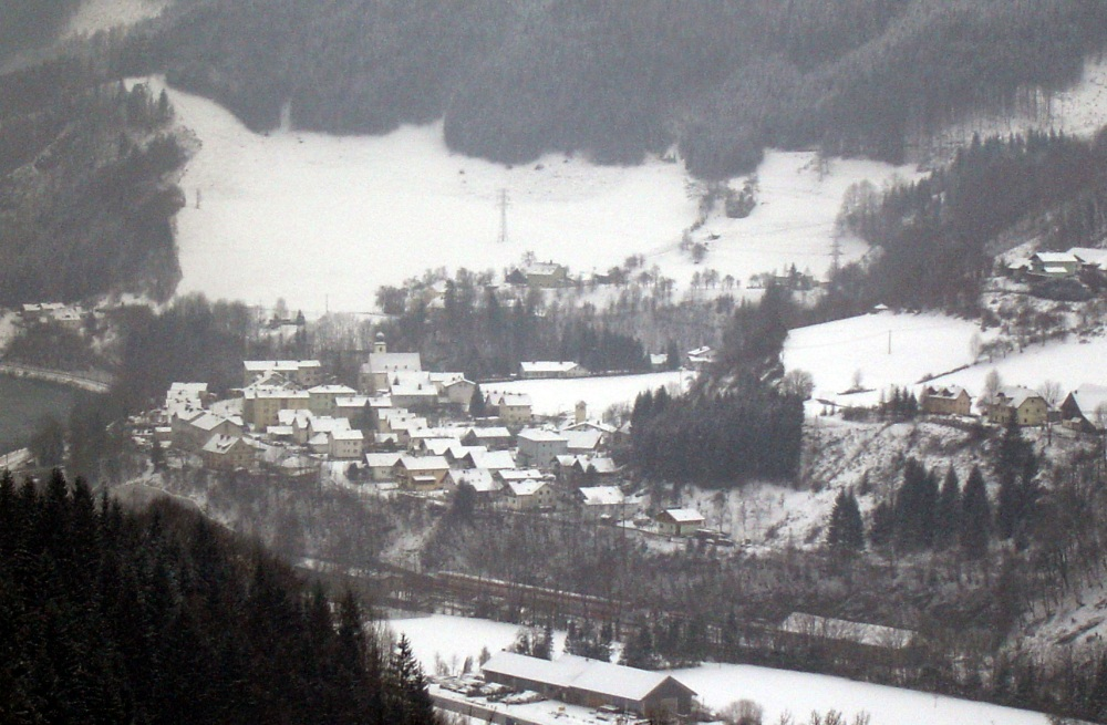 Kleinreifling, village in the municipality of Weyer, Upper Austria